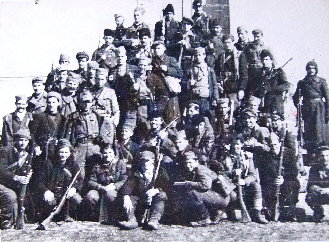 In February 1944, Monastery Prohor Pcinski. On the photo: part of the participants on military counseling organized on 27 and 28 February 1944, by the Central Committee of CPM for further expansion and joint action of partisan units in Macedonia and Serbia This media file is produced by Wikipedian in Residence in Category:Wikipedian in Residence at DARM in 2016.